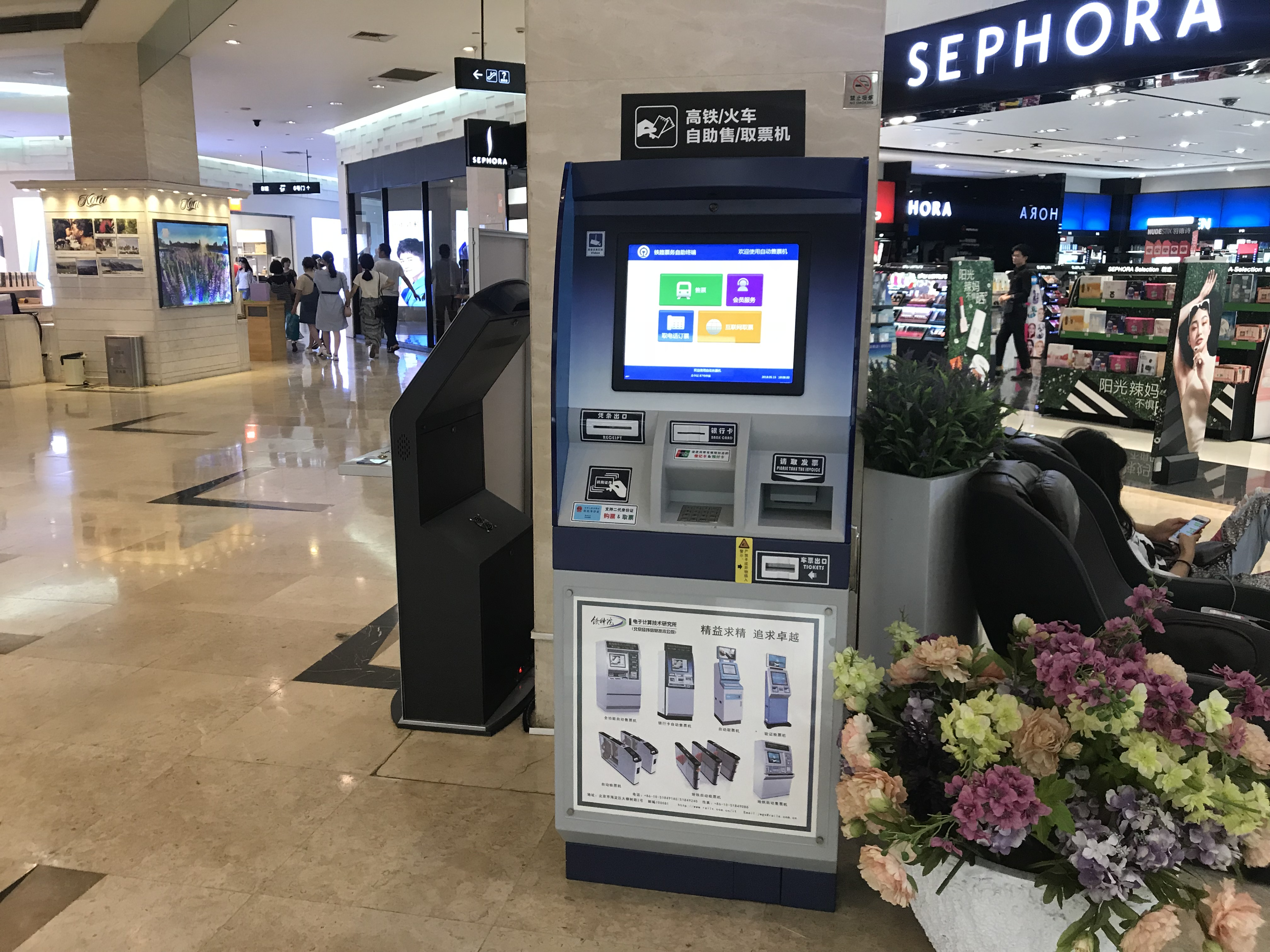 201805 TVM at Jinhua Intime City